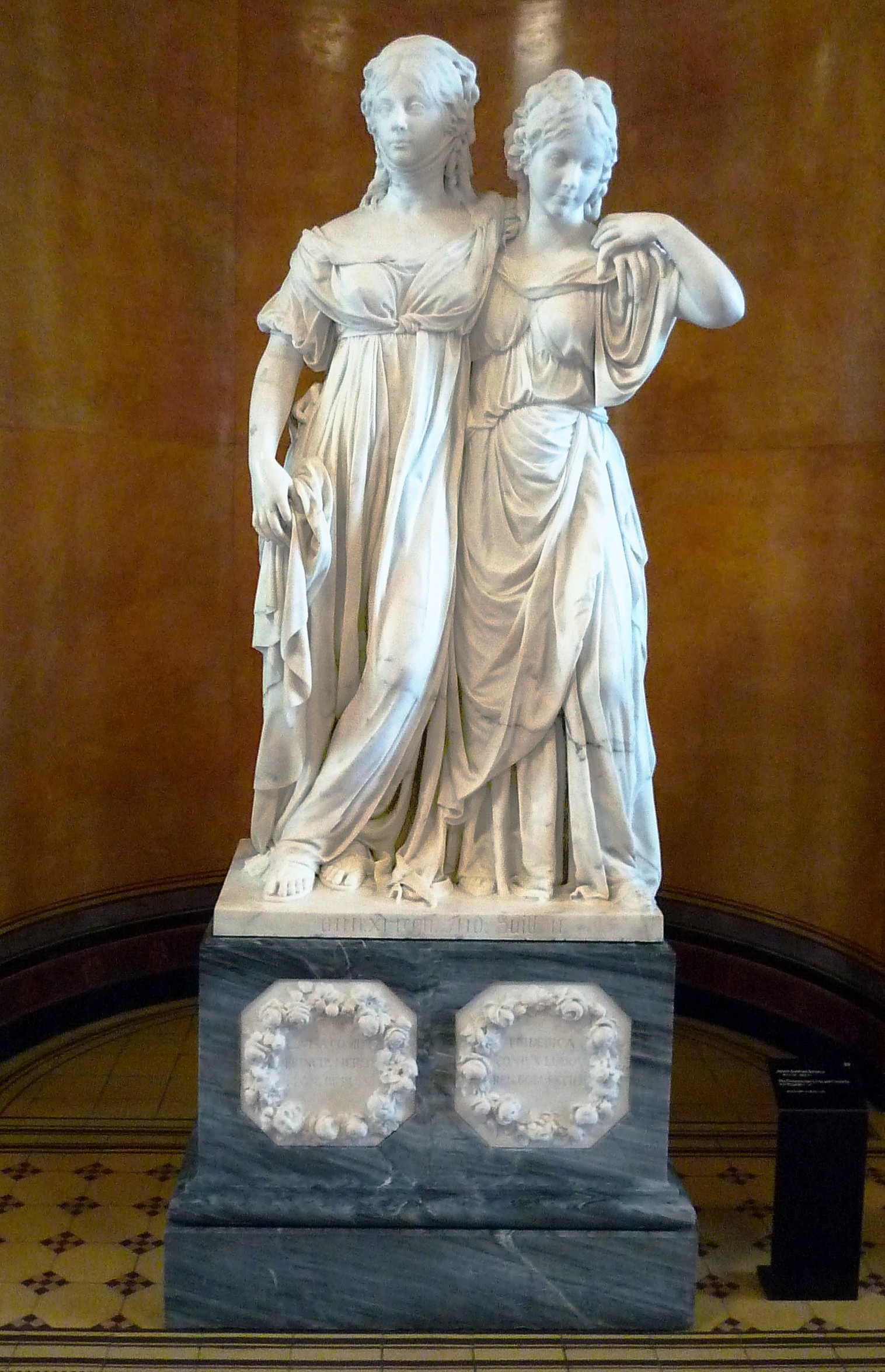 The "Prinzessinnengruppe" (Princess Luise von Mecklenburg-Strelitz and her sister Friederike) by Johann Gottfried Schadow. Material: Marble. Location: Berlin-Mitte, Nationalgalerie (National Gallery).